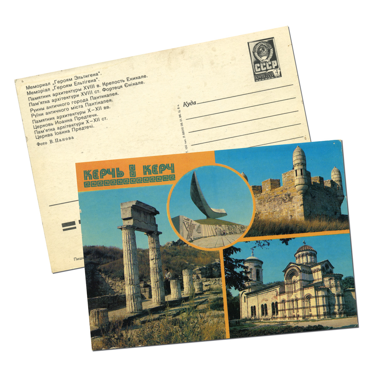 postcard of the Soviet period with the sights of Kerch: Memorial "Heroes of Eltigen" Yenikale castle, the ruins of the ancient city Panticapaeum, Church of St. John the Baptist.